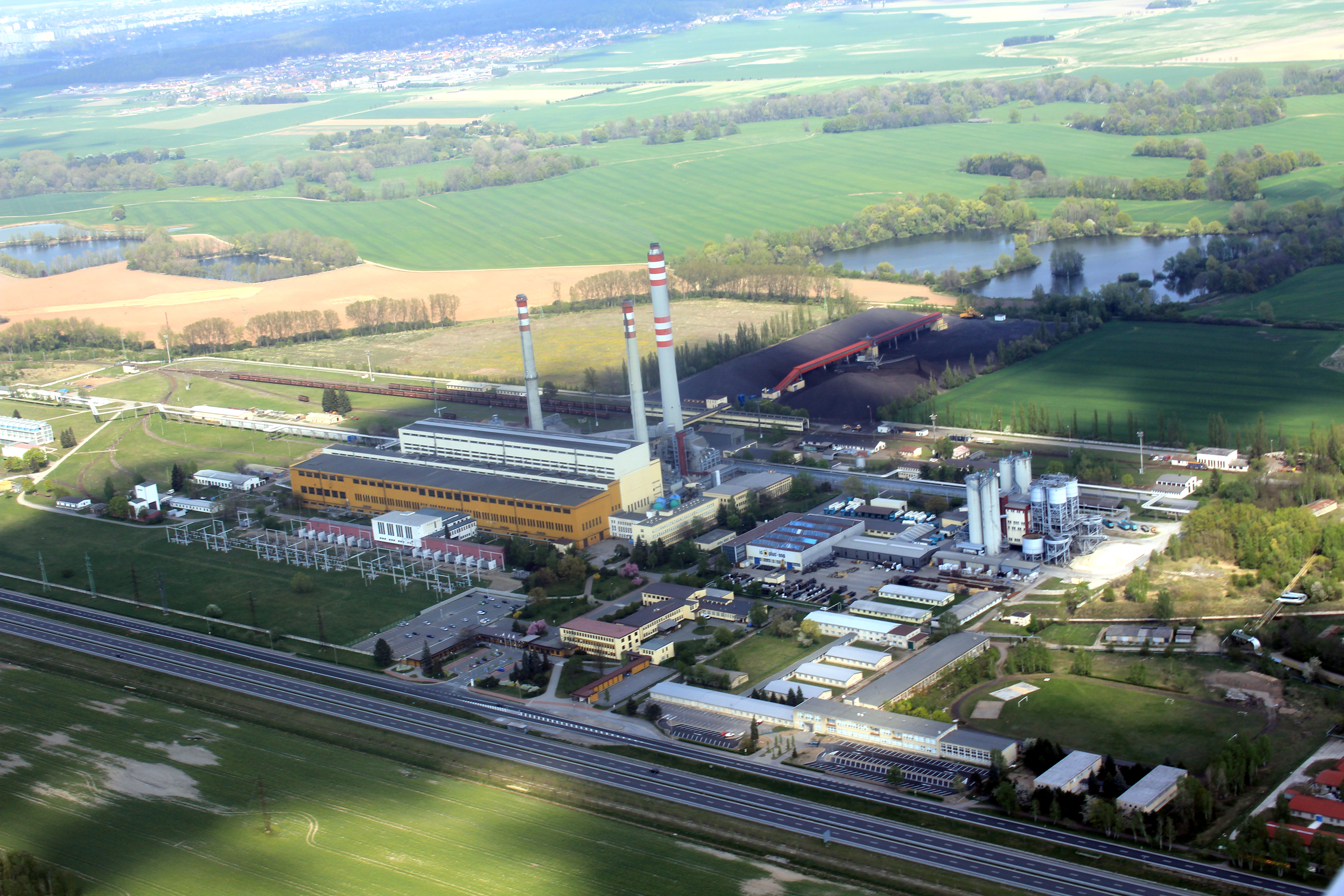 Opatovice nad Labem Power Plant from air, eastern Bohemia, Czech Republic